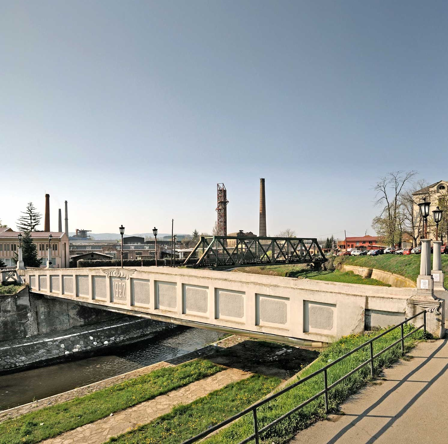 Concrete footpath over Lepenica in Kragujevac